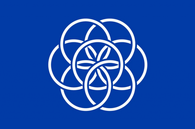 Earth Flag by Oskar Pernefeldt